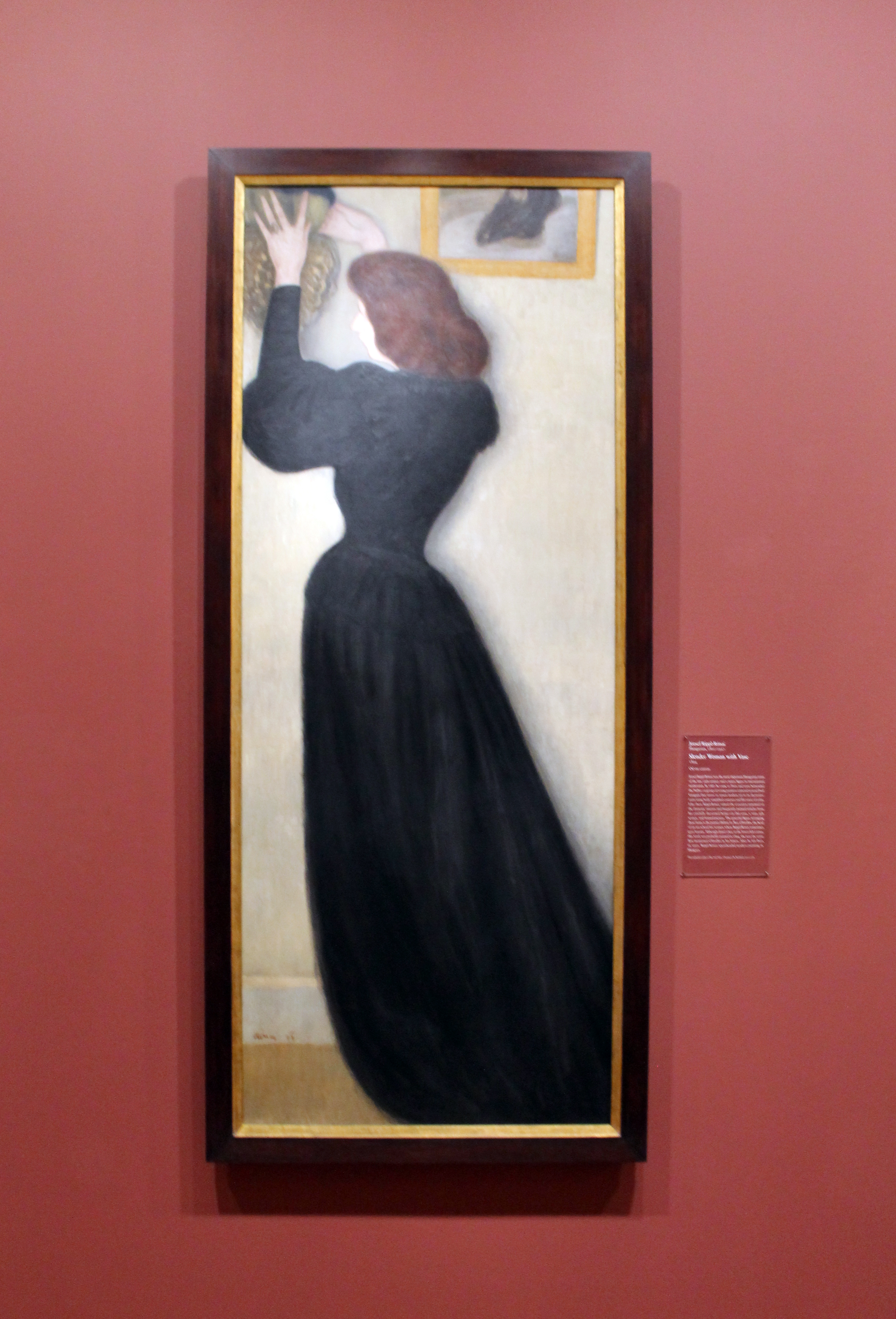 Slender Woman with Vase - an 1894 painting by Hungarian artist József Rippl-Rónai, on view in the Art Institute of Chicago.